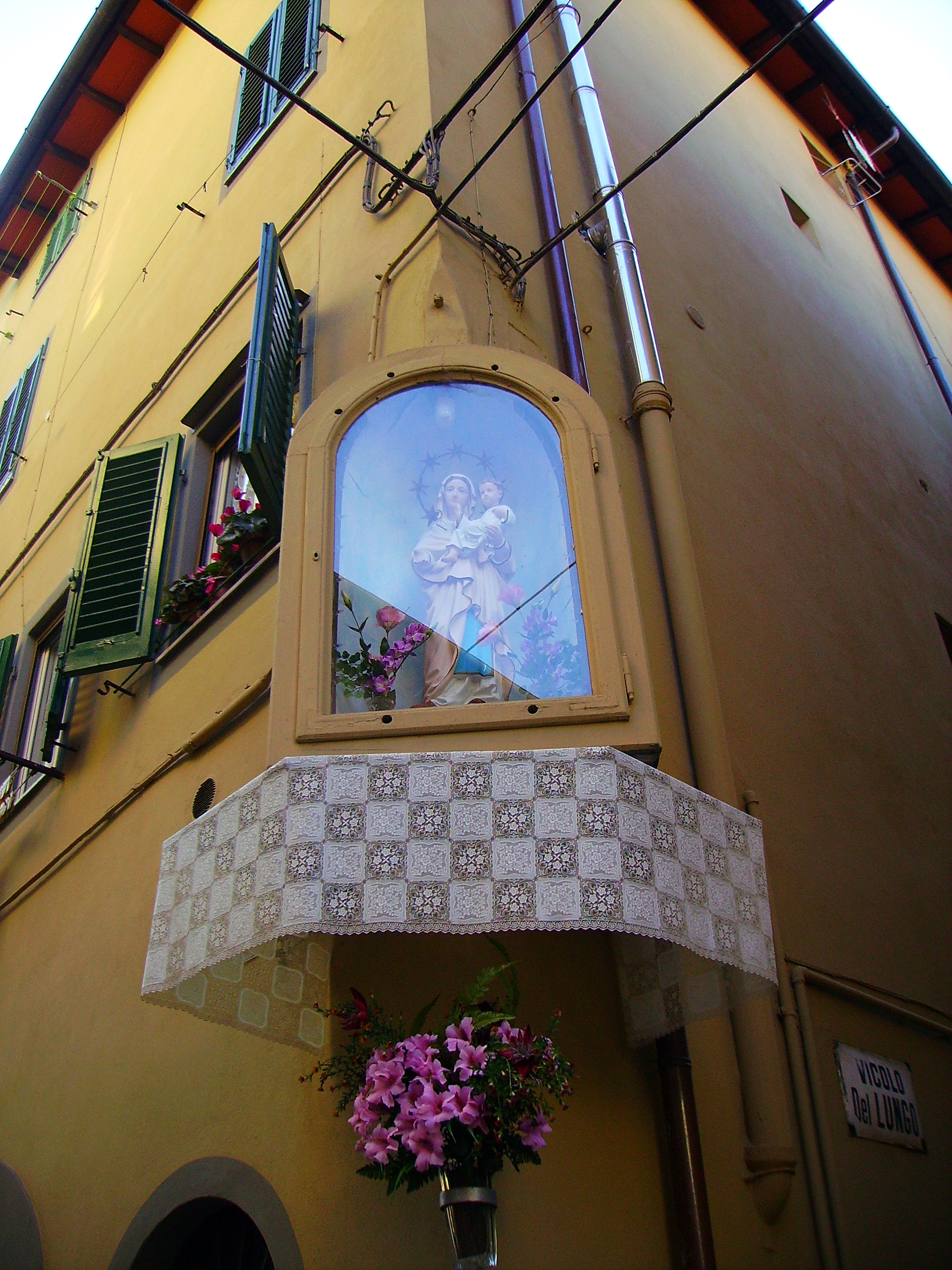 A street shrine in Montevarchi dedicated to the Holy Mary.